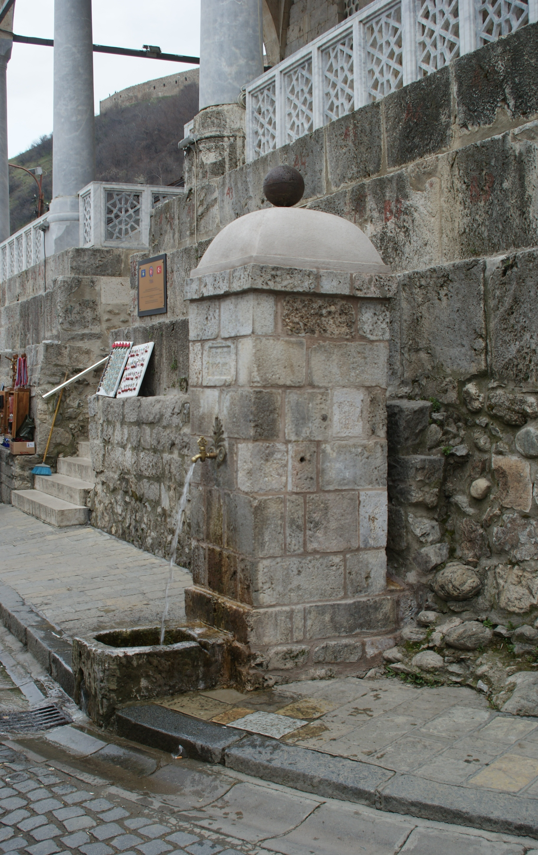 Kroi i Sinan Pashes